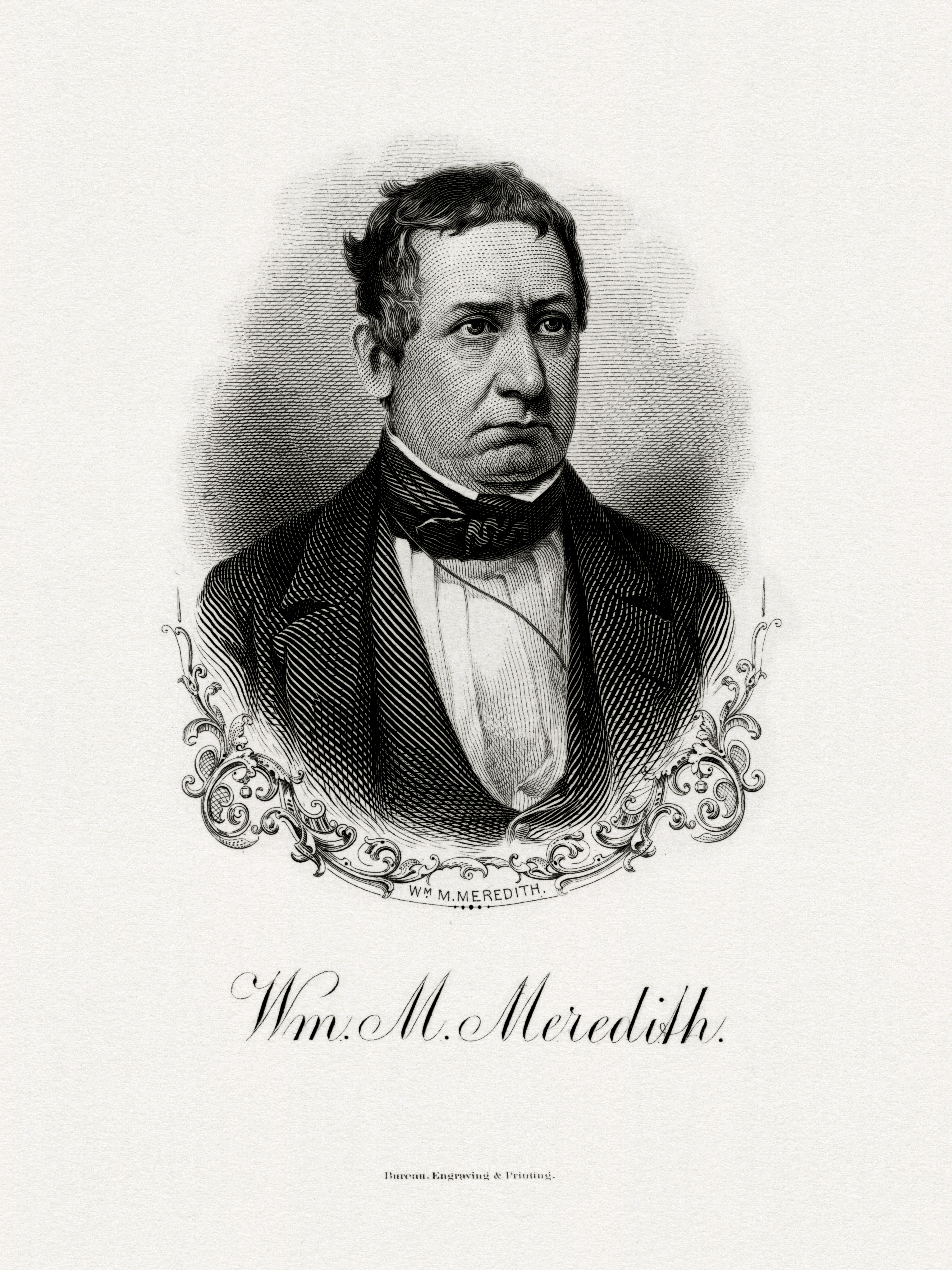 Engraved BEP portrait of U.S. Secretary of the Treasury William M. Meredith